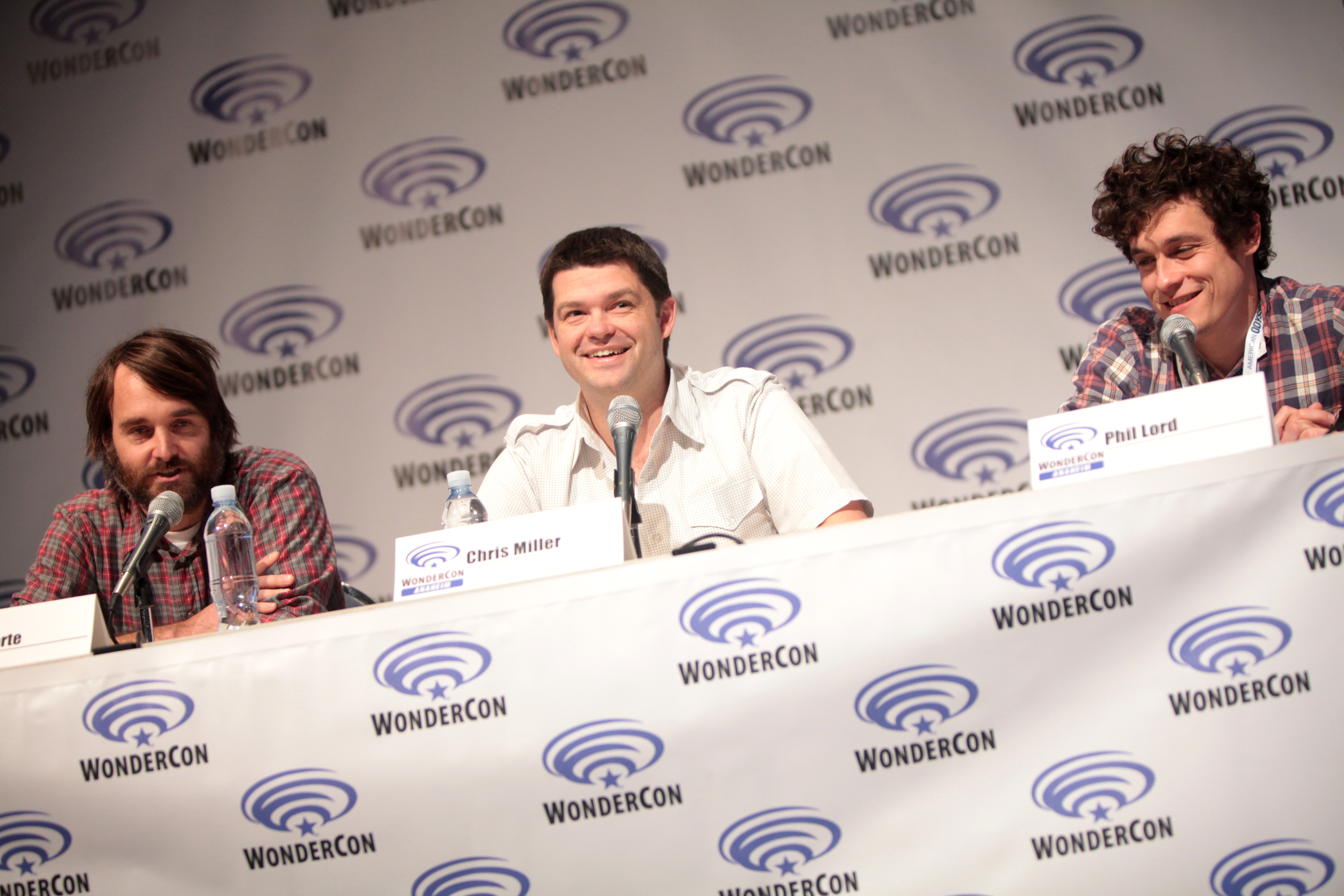 Will Forte, Chris Miller and Phil Lord speaking at the 2015 Wondercon, for "The Last Man on Earth", at the Anaheim Convention Center in Anaheim, California.